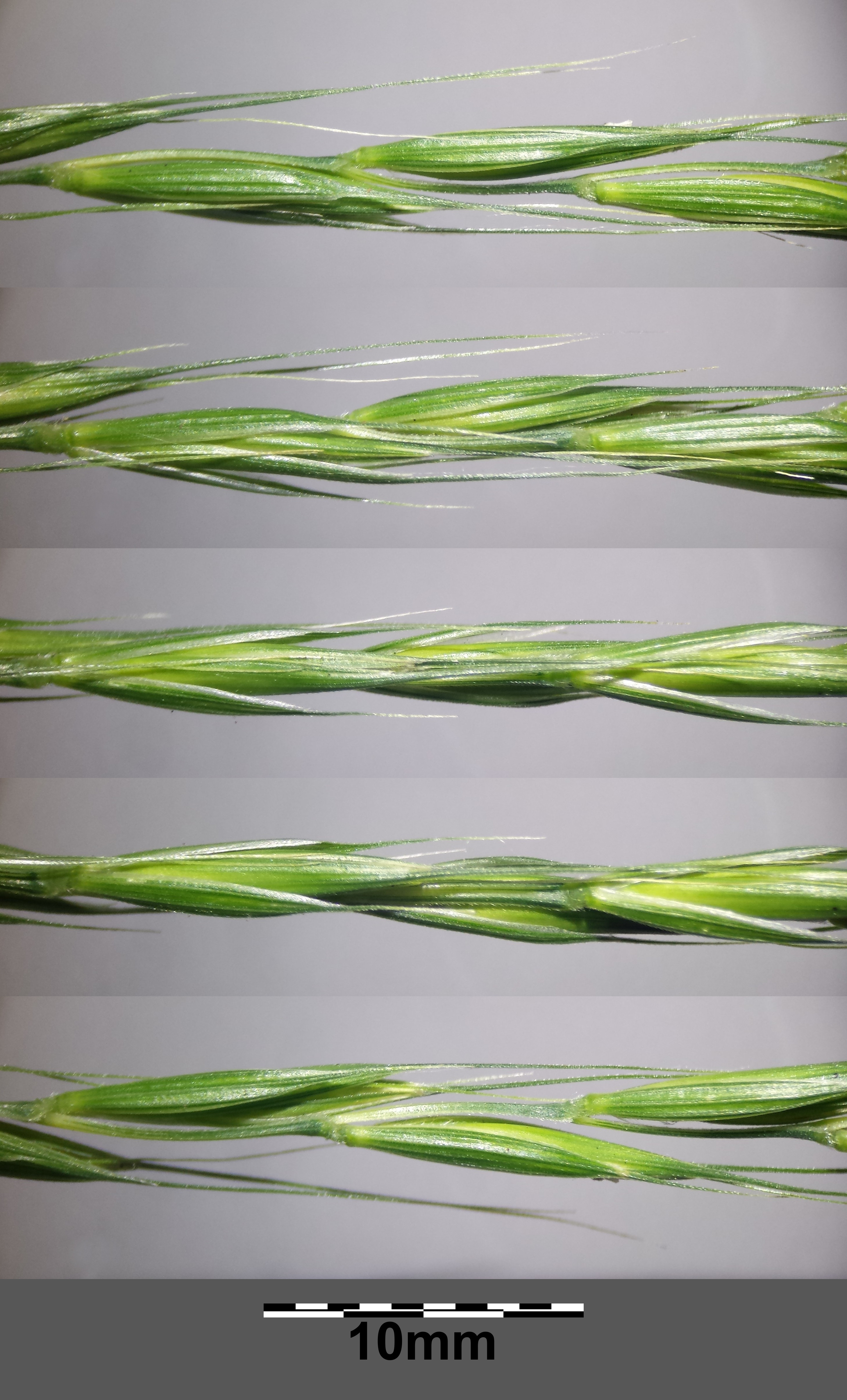 Spike (detail) Taxonym: Elymus caninus ss Fischer et al. EfÖLS 2008 ISBN 978-3-85474-187-9 Location: Rohrwald, district Korneuburg, Lower Austria - ca. 280 m a.s.l. Habitat: wet wood